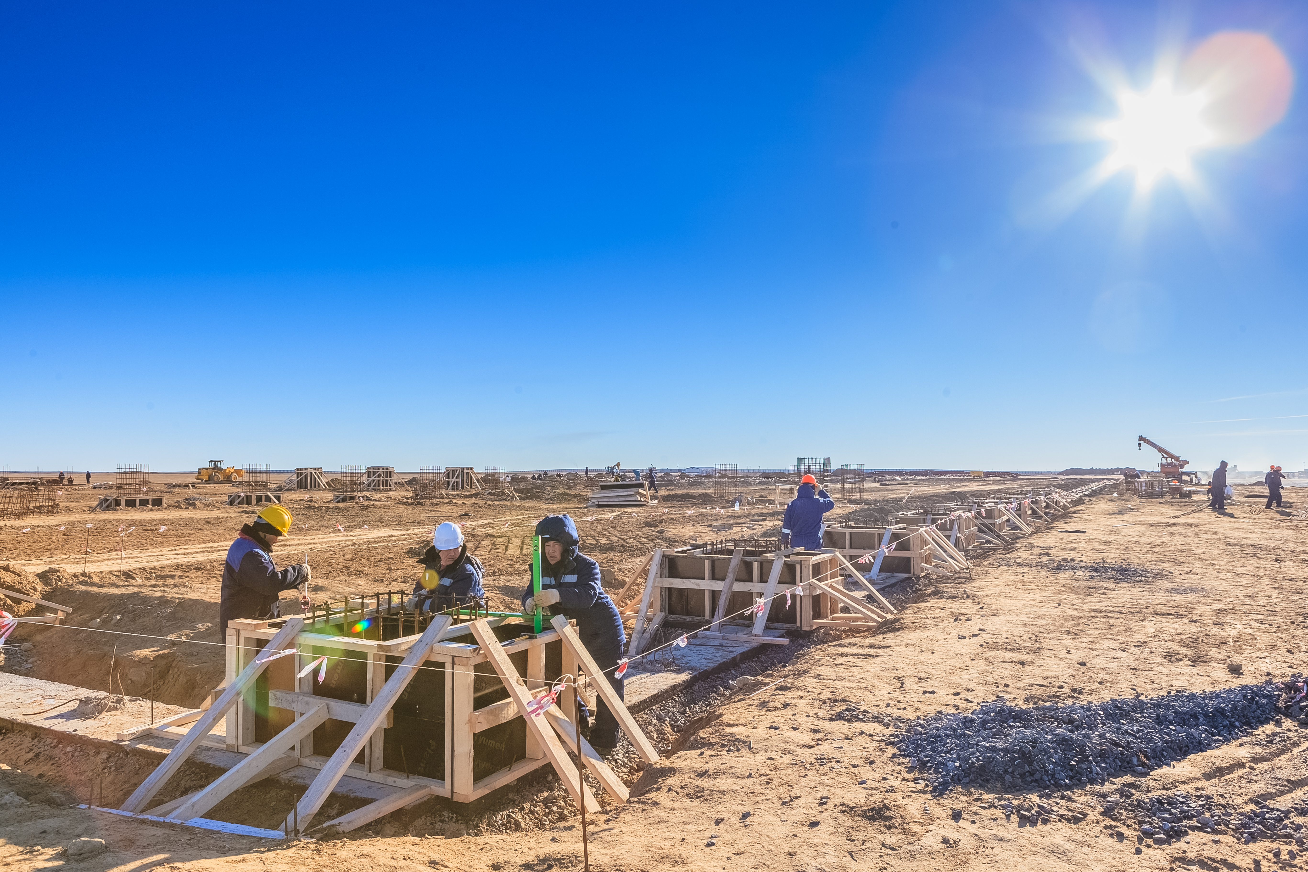 Atyrau Gaz Chemical Plant Building